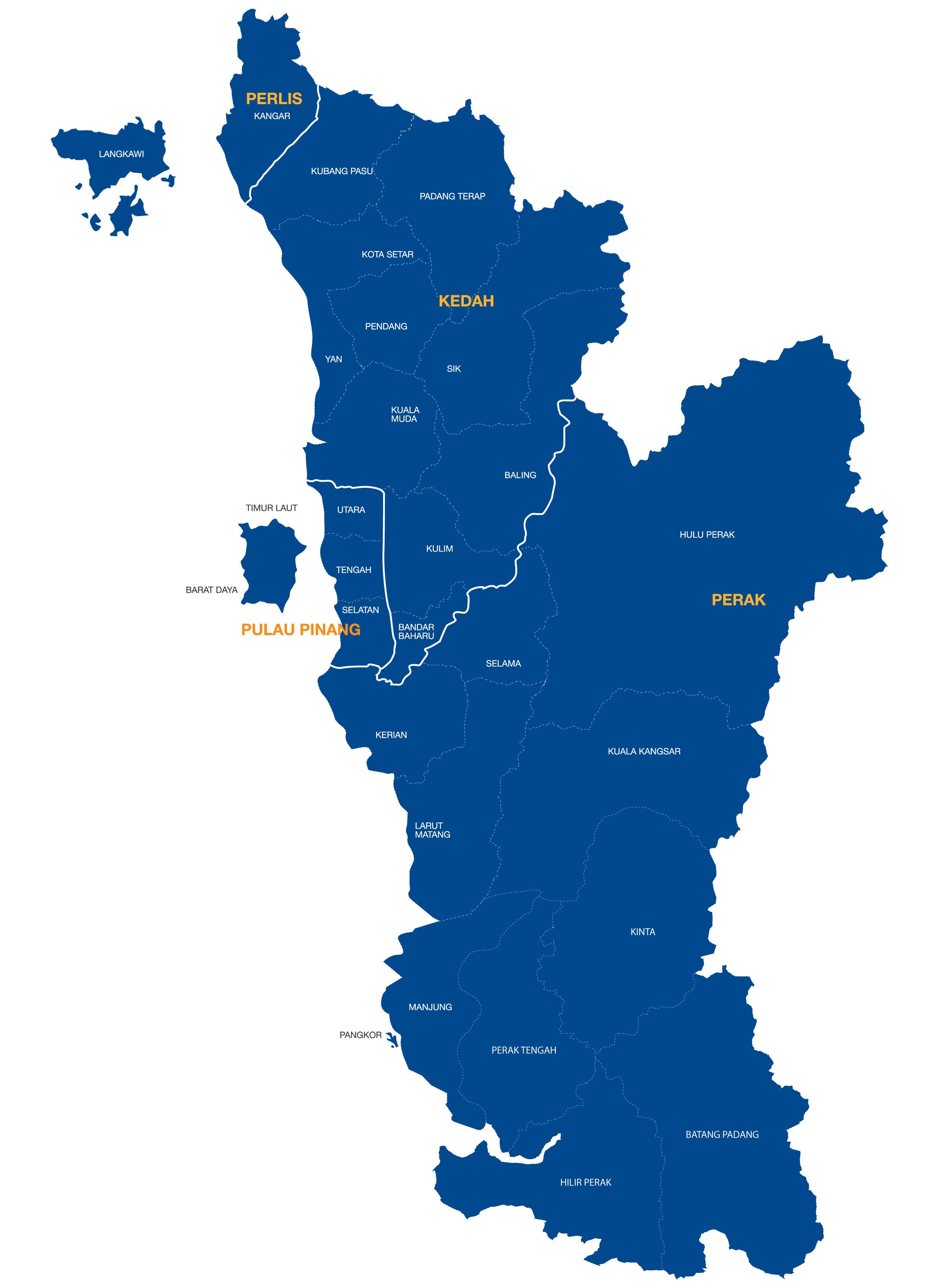 Koridor Utara encompassing the state of Kedah, Perak, Perlis and Pulau Pinang